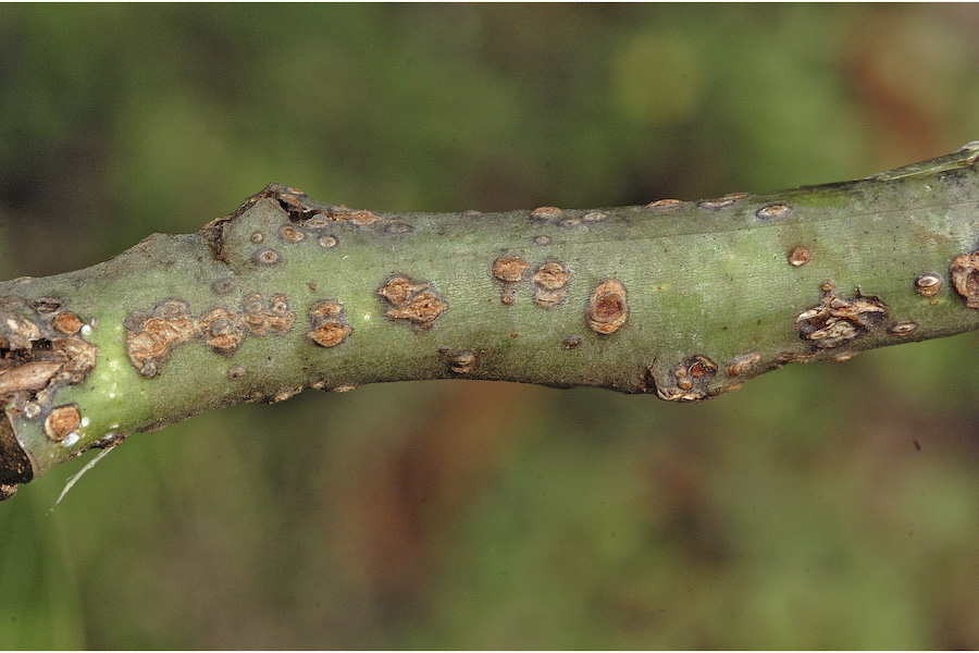 Acrocarpus fraxinifolius is one the tree of Western Ghats, India. This image shows... Attributions: B. R. Ramesh, N. Ayyappan, Pierre Grard, Juliana Prosperi, S. Aravajy, Jean Pierre Pascal, The Biotik Team, French Institute of Pondicherry. Contributors:Dr. N. Ayyappan, Biotik Team, French Institute of Pondicherry.